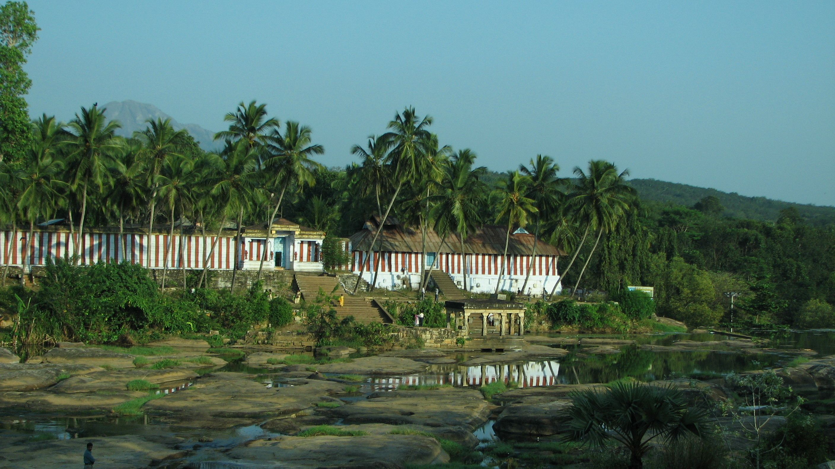 Shiva temple in Thiruparappu, Kanyakumari district